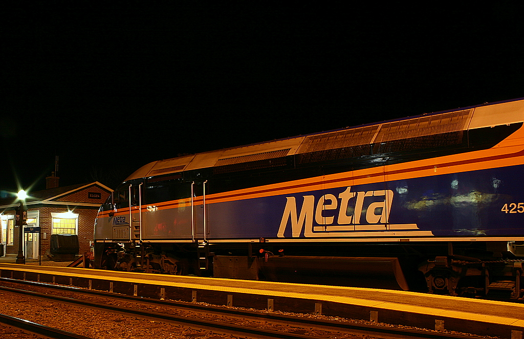 Elgin Metra station.